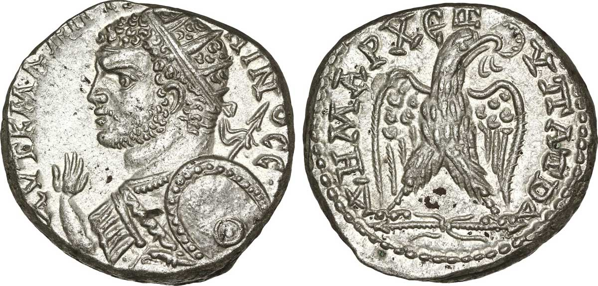 Cyrrhus